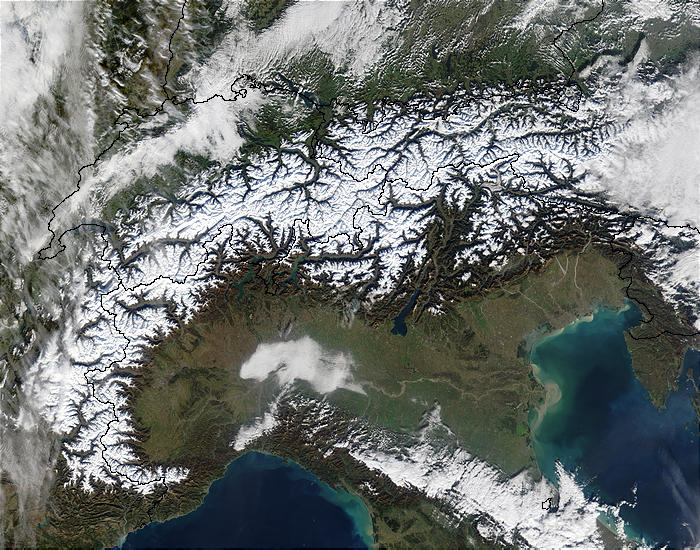 The Alps march across these true-color MODIS images of Autumnal southern Europe.